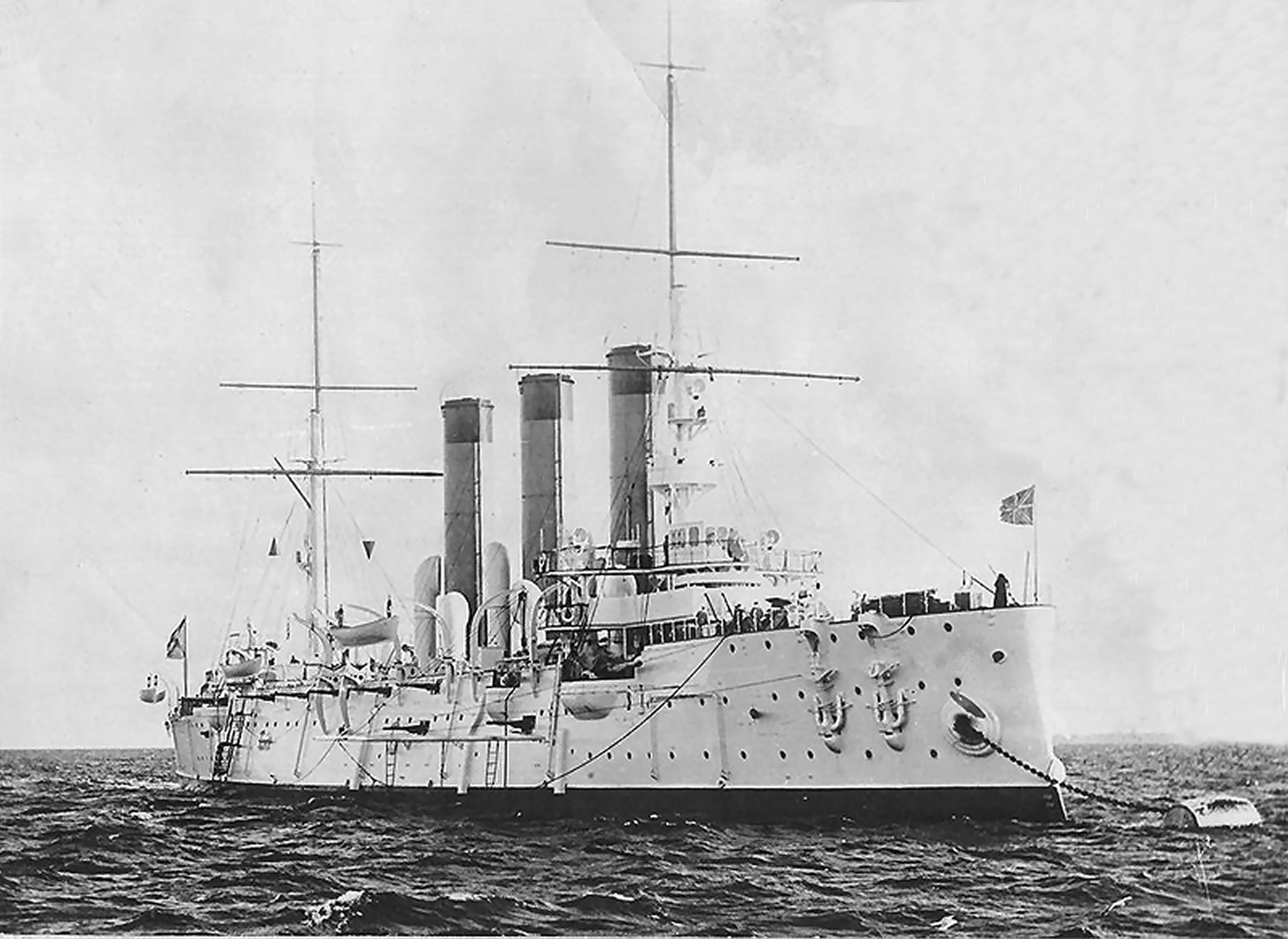 Russian armored cruiser Diana circa 1910